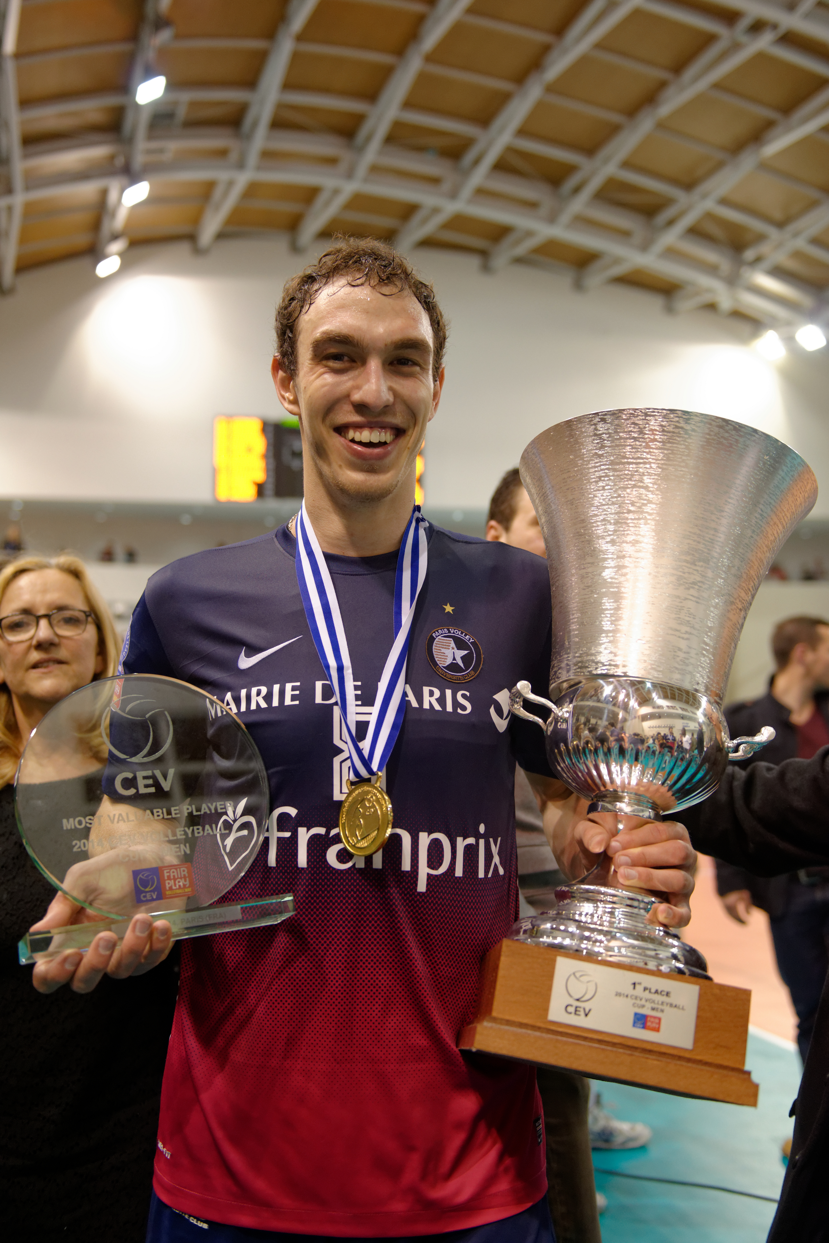 Paris Volley's Marko Ivović poses with the trophy of most valuable player and the CEV Cup after of the final of the 2014 CEV Cup in Paris on 29 March 2014.